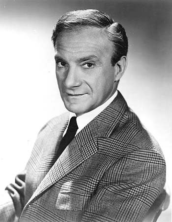 Publicity photo of American character actor, Jonathan Harris promoting his role on the CBS television series Lost in Space. (Note: Although the image was distributed to publicize the subject's role on the series, the subject does not appear to be depicted "in character".)